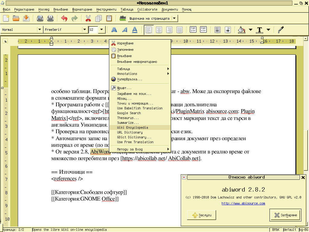 AbiWord 2.8.2 in Debian, bulgarian interface